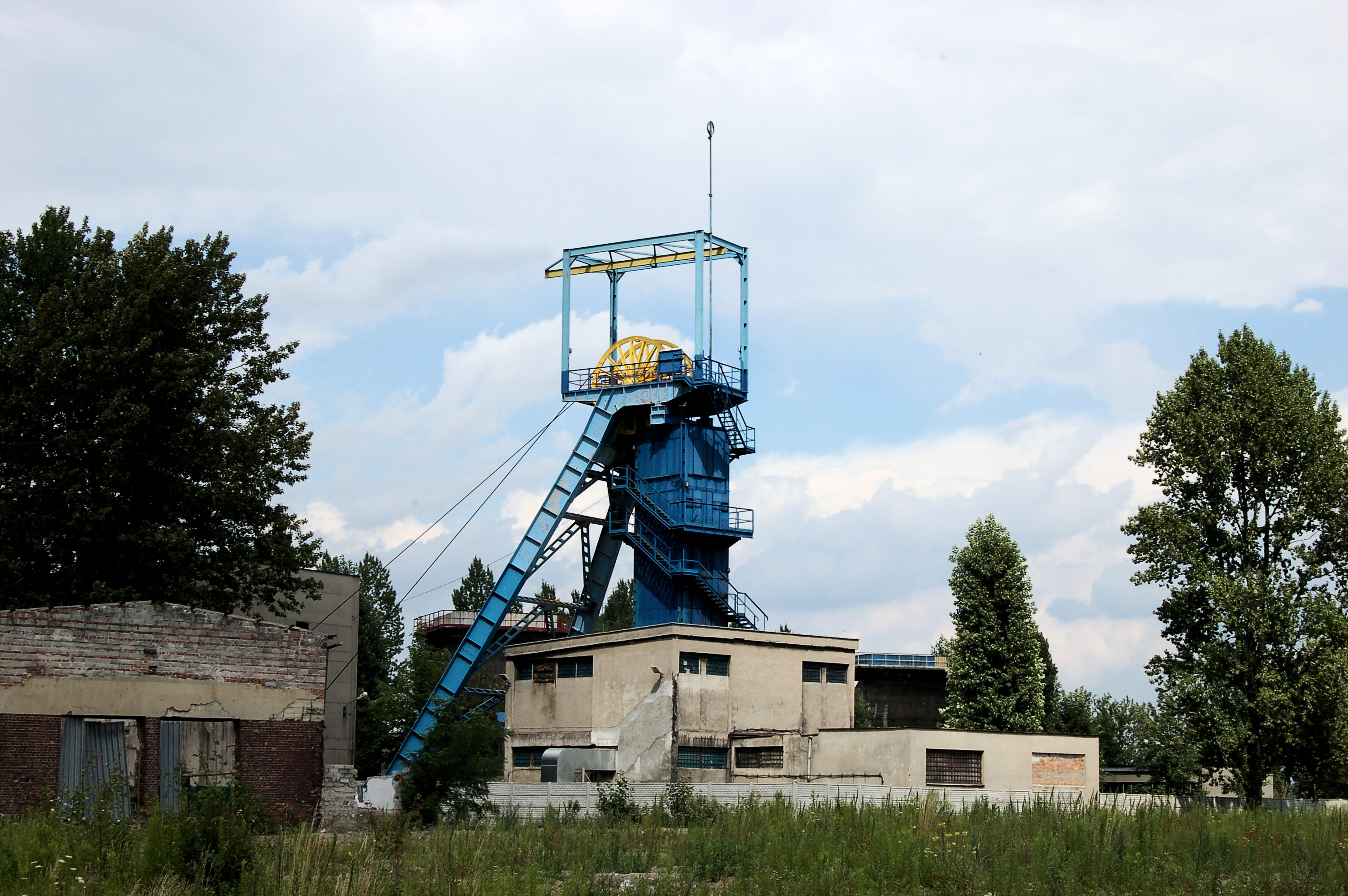 Barbara I shaft winding tower, part of Rozbark coal mine in Bytom